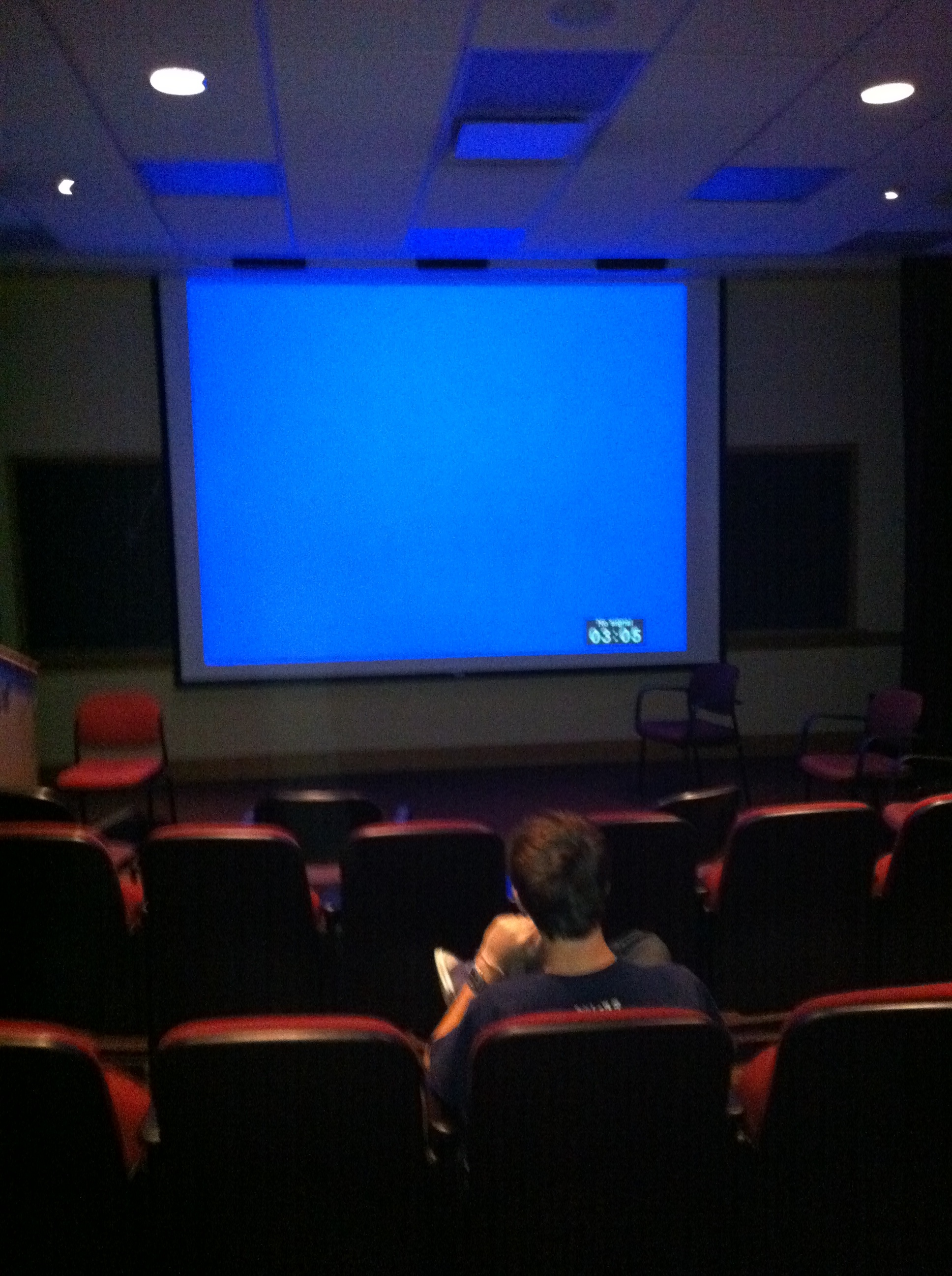 Film screening room at Georgetown Universtiy